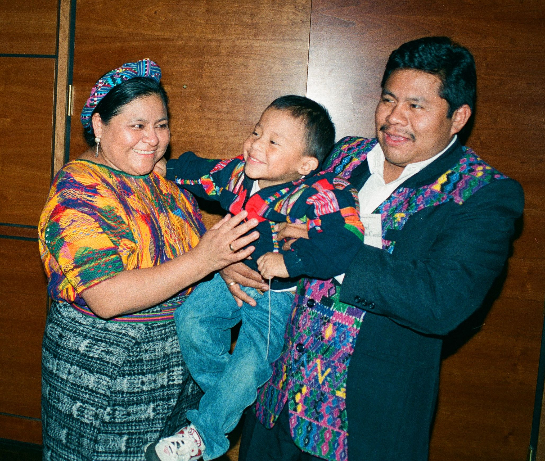 From November 9 1998 southern Maryland